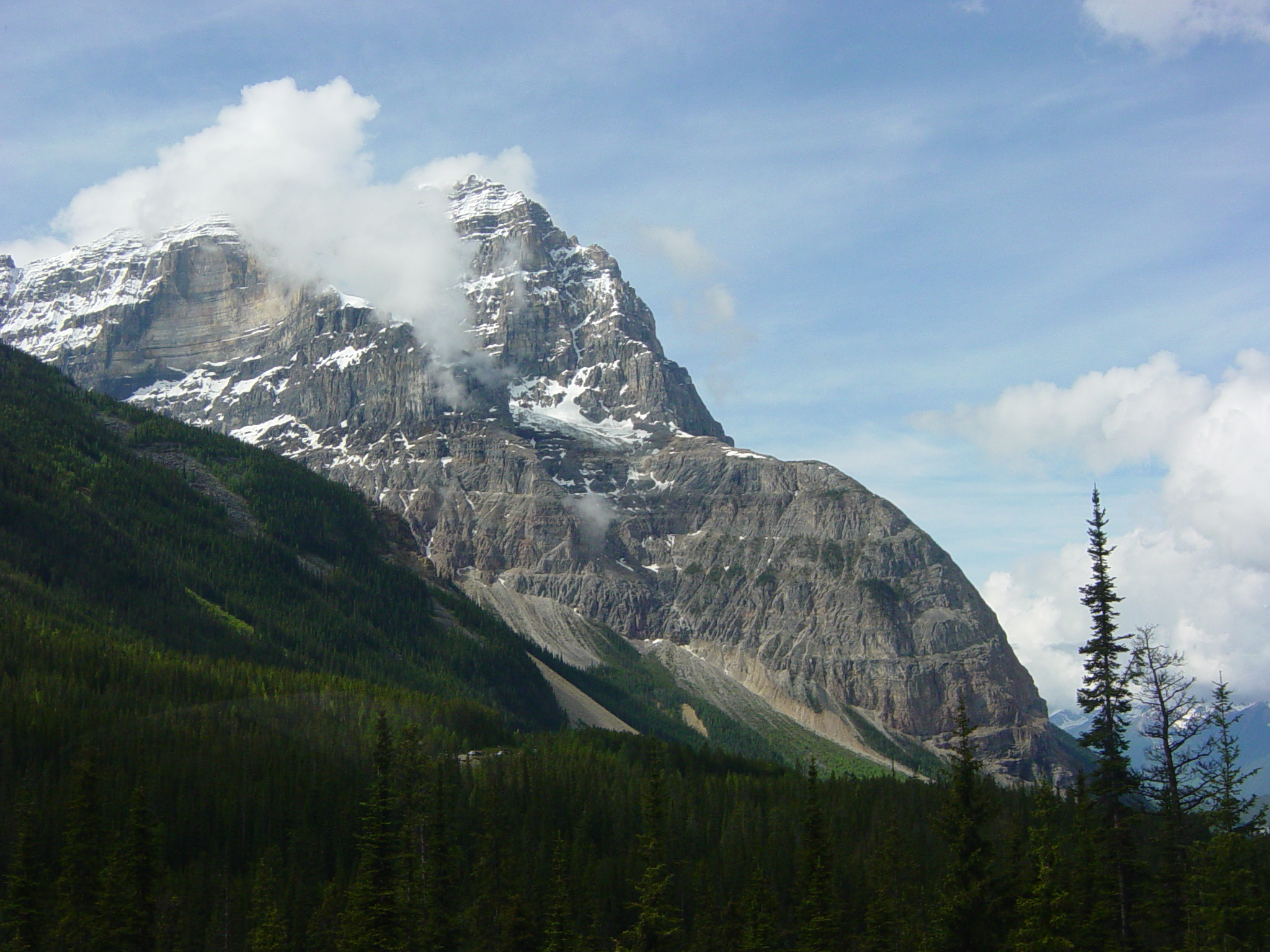 View of a mountain of the Canadian Rockies from the Rocky Mountaineer train (image has some window reflections). Image taken Spring 2005 by User:Leonard G.